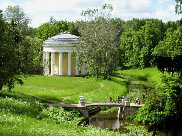 Pavlovsk park. Valley of the river Slavyanka. Friendship temple